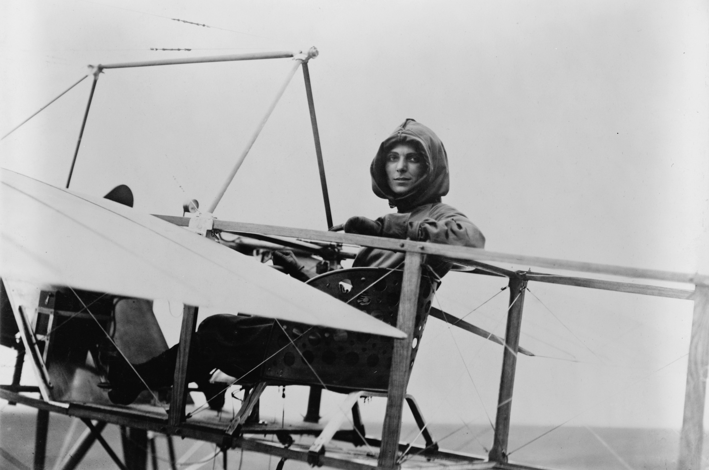 Harriet Quimby (1875-1912) in the Moisant monoplane she learned to fly in.